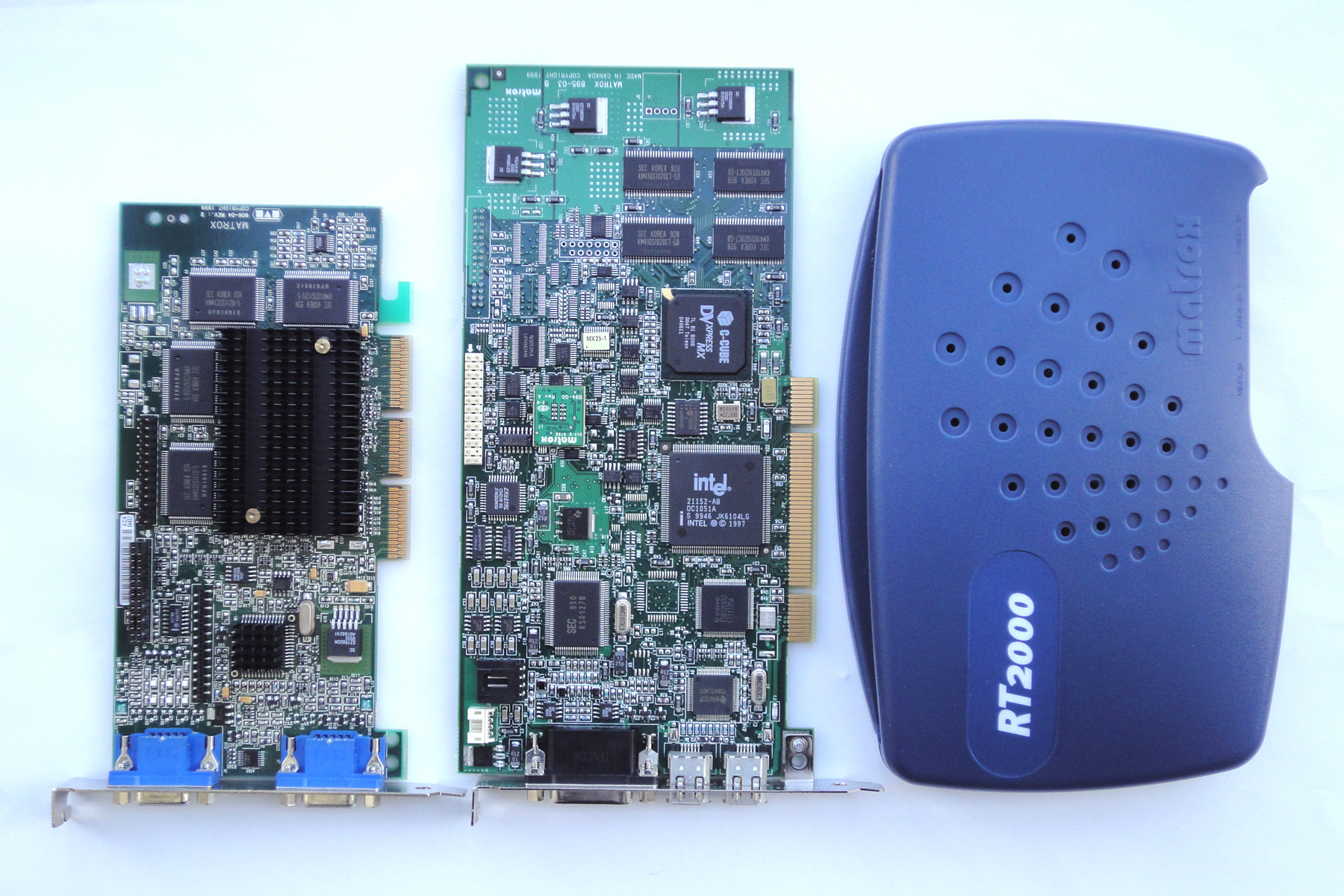 copy free.